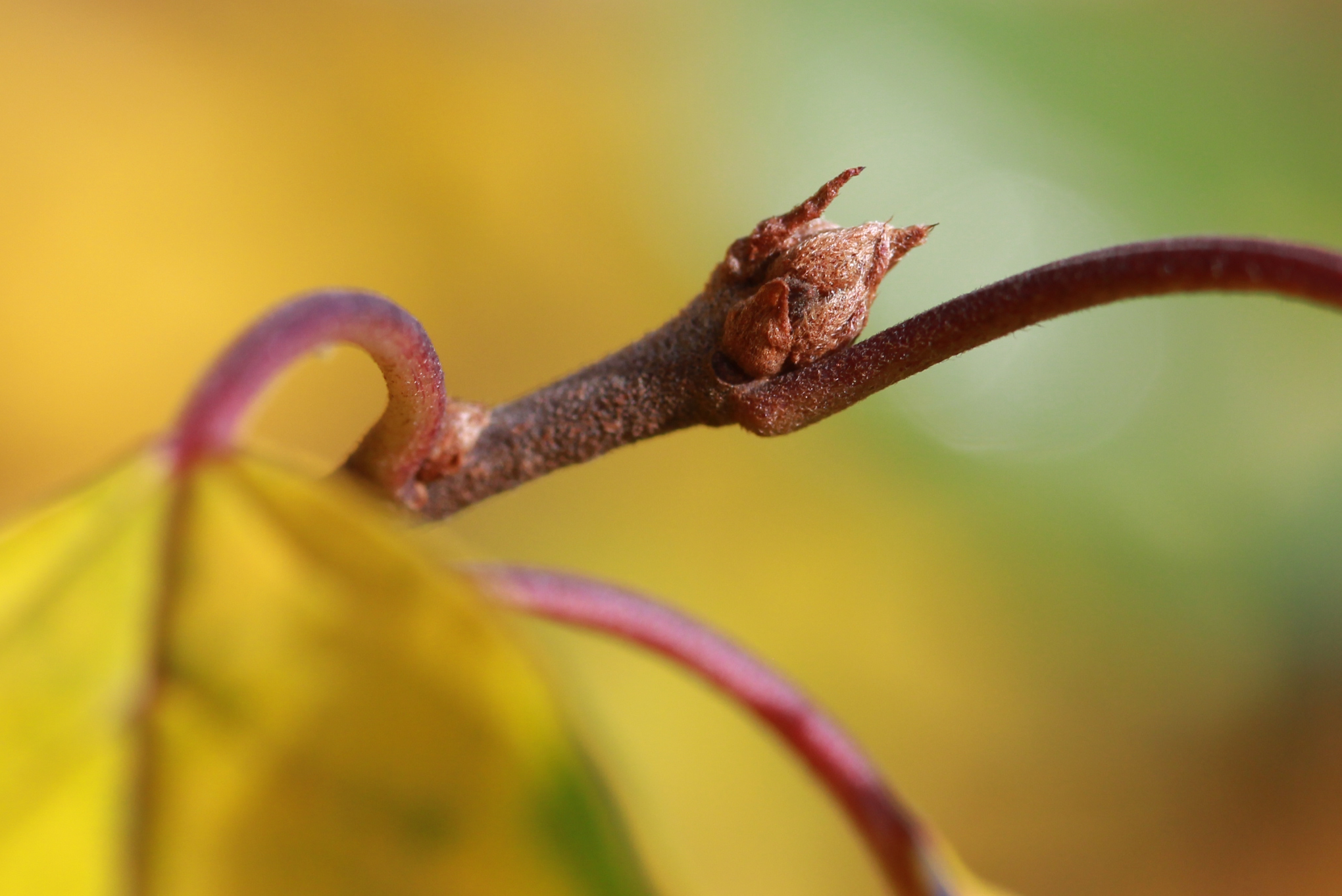 A close-up on a bud of Frangula alnus.